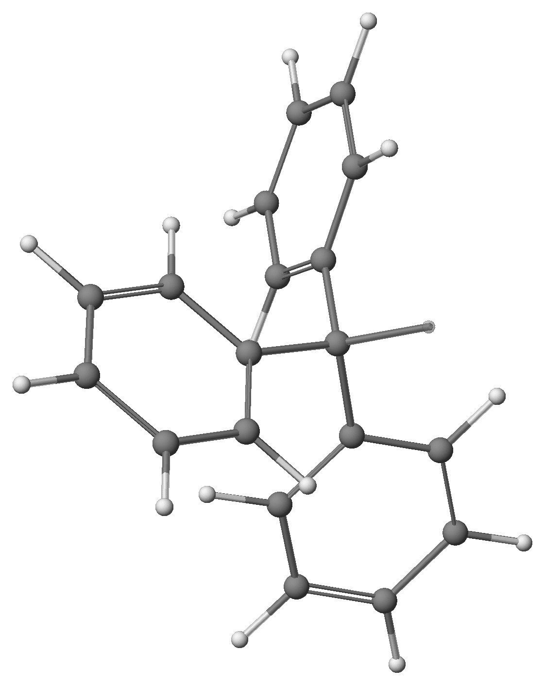 Tritil gropu balls and sticks projection